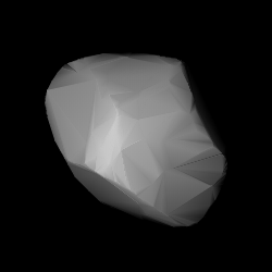 3D convex shape model of 1336 Zeelandia, computed using light curve inversion techniques. J. Hanuš, J. Ďurech, M. Brož, B. D. Warner (June 2011). "A study of asteroid pole-latitude distribution based on an extended set of shape models derived by the lightcurve inversion method". Astronomy and Astrophysics 530: A134. ISSN 0004-6361. arXiv